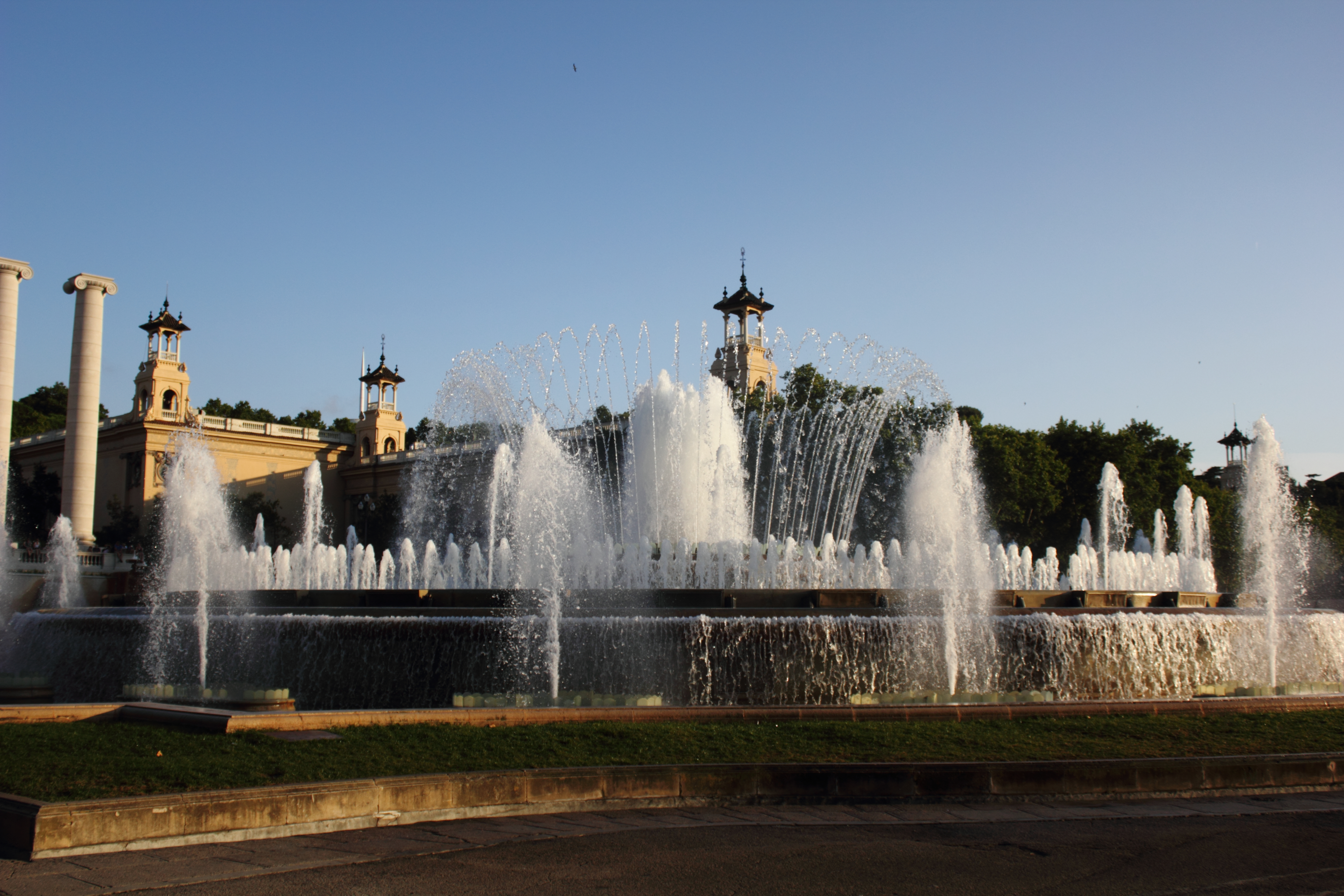 The magic foutain of Montjuïc